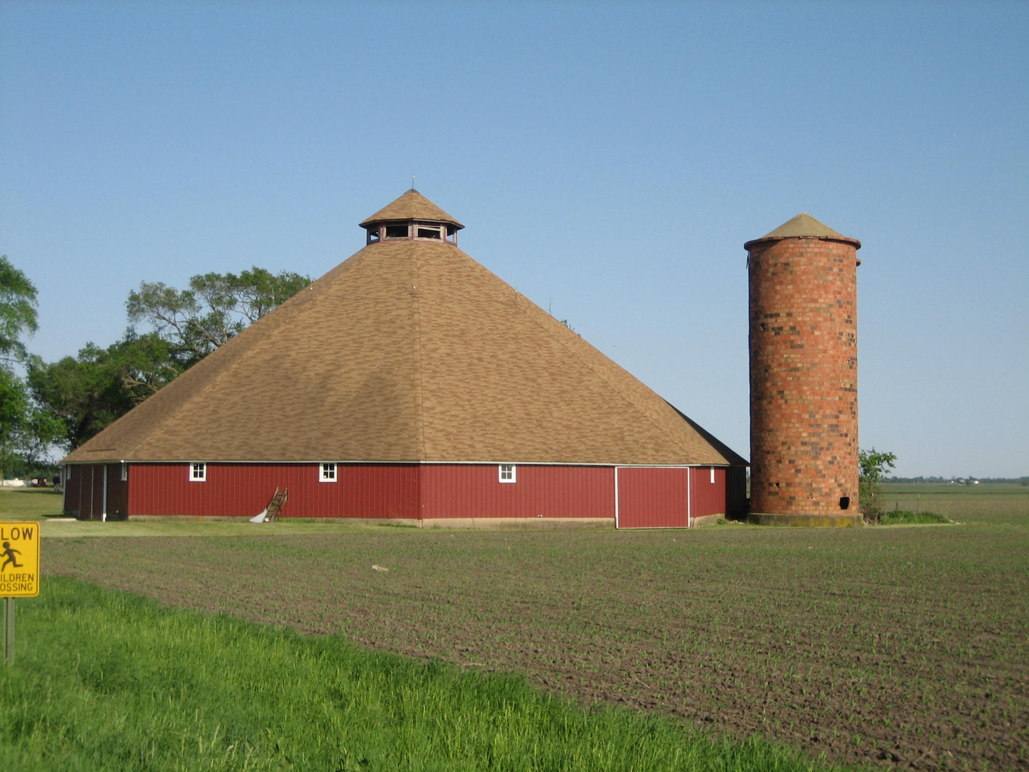 An octagonal round barn in southern DeKalb County, Illinois, just north of the LaSalle County community of Earlville.